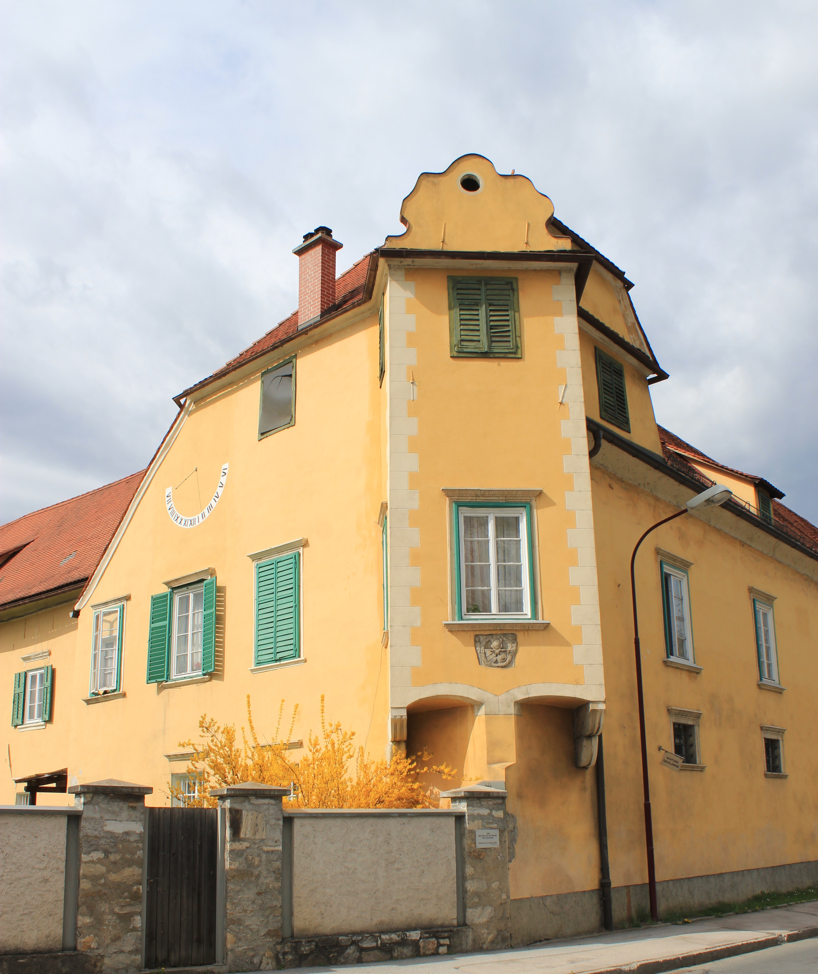 Bayerhofen castle in the community of Wolfsberg